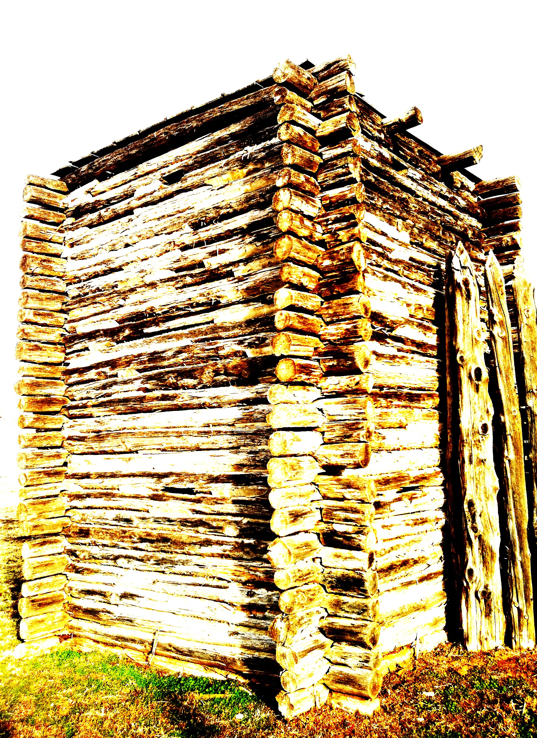 Picket-style log structure circa late-1800s, part of the Fort Supply Army Post (originally called "Camp of Supply") established in 1868. The facility served in the Army's campaign against the Southern Plains Indians in what was then the Indian Territory.